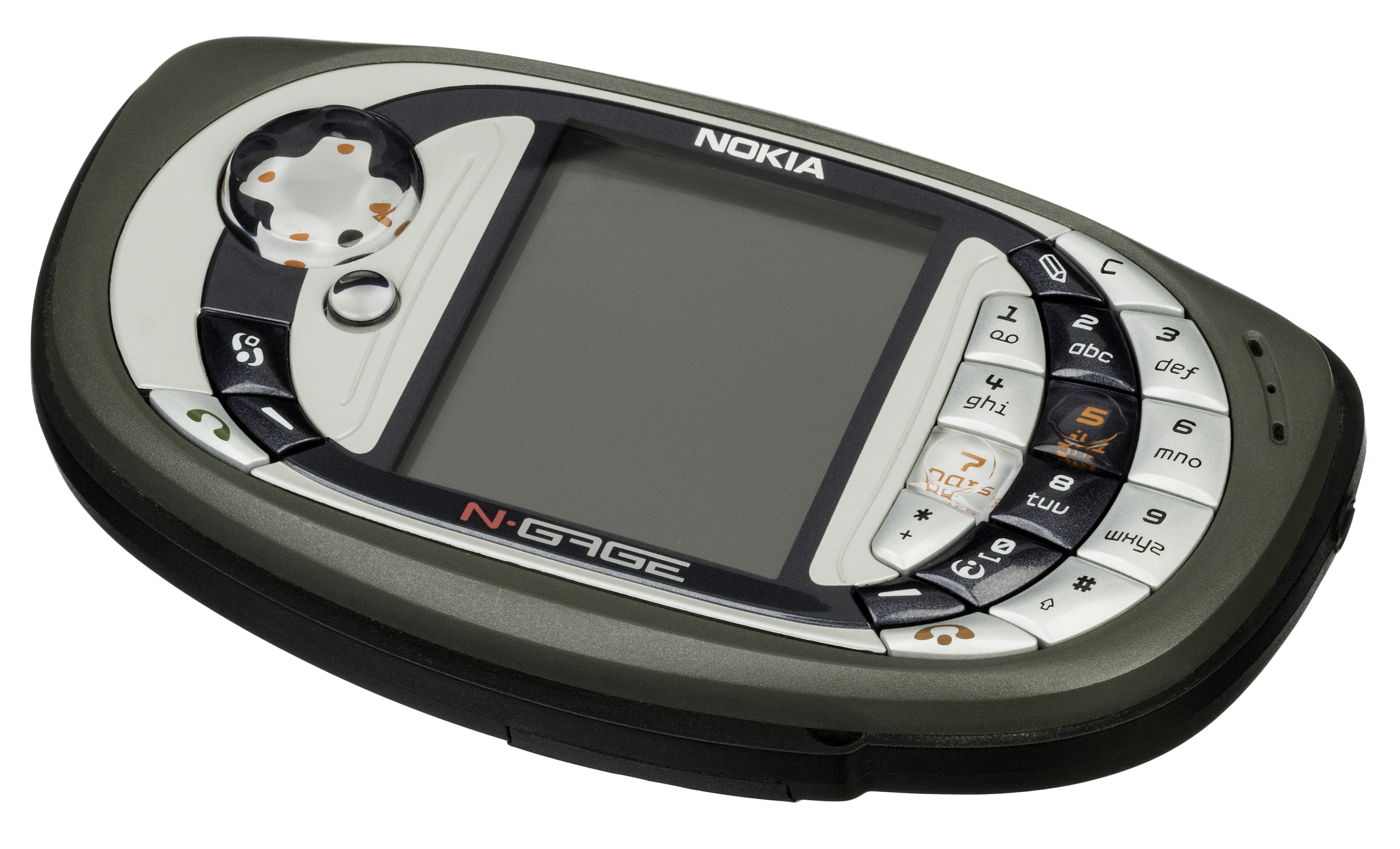 The Nokia N-Gage QD, a device that combined a gaming console and a cellphone. This version is the updated model, the QD, that followed the wonky original model in 2004. The update did little to improve the N-Gage's standing, leading to the device being discontinued a year later.